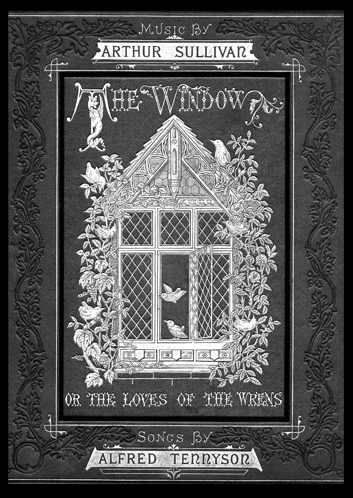 Embossed cover to the 1871 edition "The Window; or, the Songs of the Wrens" by Sir Arthur Sullivan and Alfred, Lord Tennyson. The subtitle used on it, "The Loves of the Wrens" appears to be in error, as "The Songs of the Wrens" is within the volume, and is how the work is generally known.